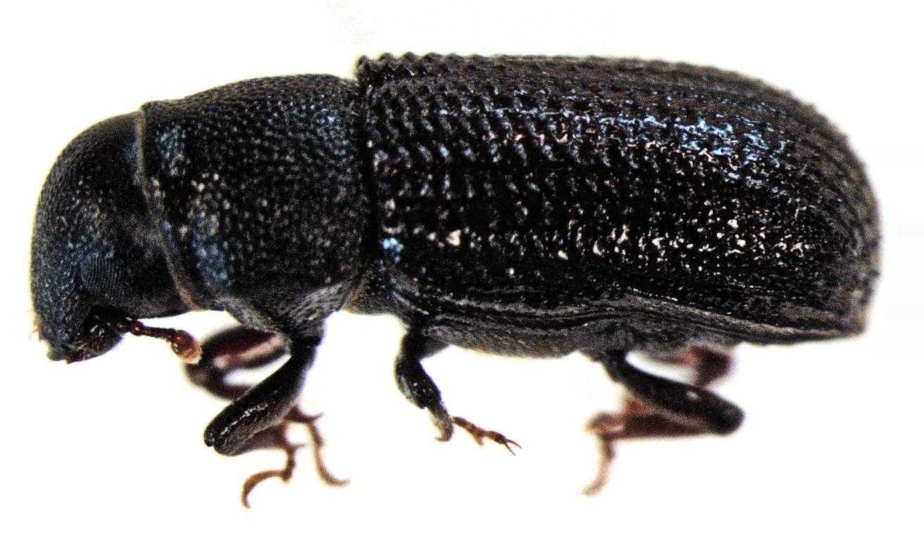 adult Stenoscelis hylastoides, length about 3.5 mm